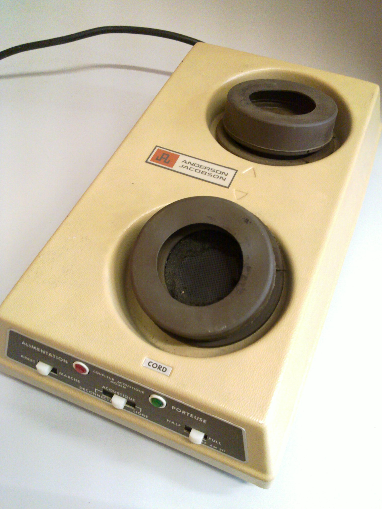 An AM211 Andersen Jacobson acoustic modem (french version)